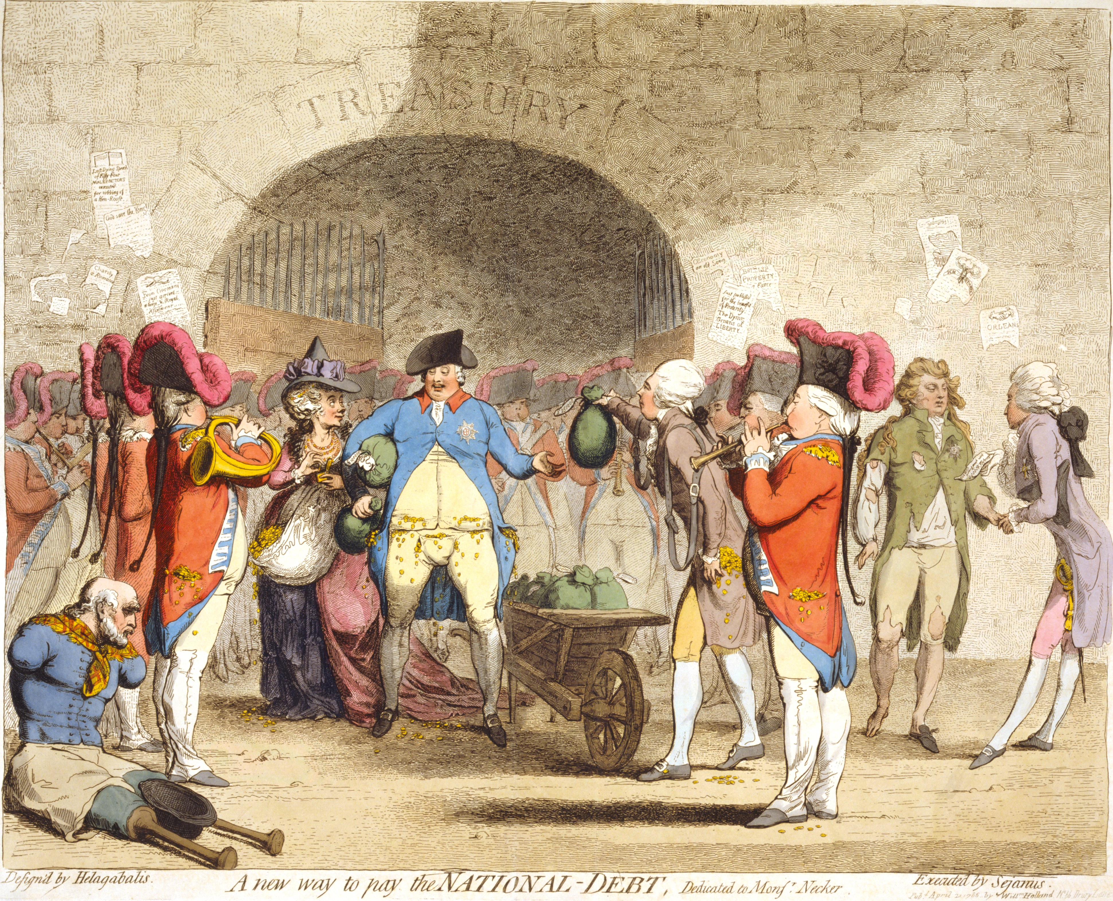 A new way to pay the national-debt / design'd by Helagabalis ; executed by Sejanus. SUMMARY: Cartoon depicts a slovenly-attired King George III and Queen Charlotte standing before the Treasury with moneybags under their arms and with a surfeit of gold guineas overflowing their pockets and bursting from the fly of the King's long-johns. William Pitt, his pockets similarly overflowing, hands the king another moneybag from a pile in a wheelbarrow. The Prince of Wales (heir to the throne) stands to the right, destitute in torn rags and missing a shoe; he is being handed a check saying "Accept £200000 from your friend Orleans". A quad-amputee sits on the ground to the left with an empty begging hat between the stubs of his prostheses-fitted legs. Posters on the wall read "Last Dying Speech of Fifty-Four Malefactors executed for robbing of a Hen-Roost" and "Just published for the benefit of Posterity: The Dying Groans of Liberty". MEDIUM: 1 print : etching. CREATED/PUBLISHED: [London] : Pubd. by Willm. Holland, 1786 April 21. Catalogue of prints and drawings in the British Museum. Division I, political and personal satires, v. 6, no. 6945 Forms part of: British Cartoon Prints Collection (Library of Congress). Exhibited: Gillray and the Art of Caricature.